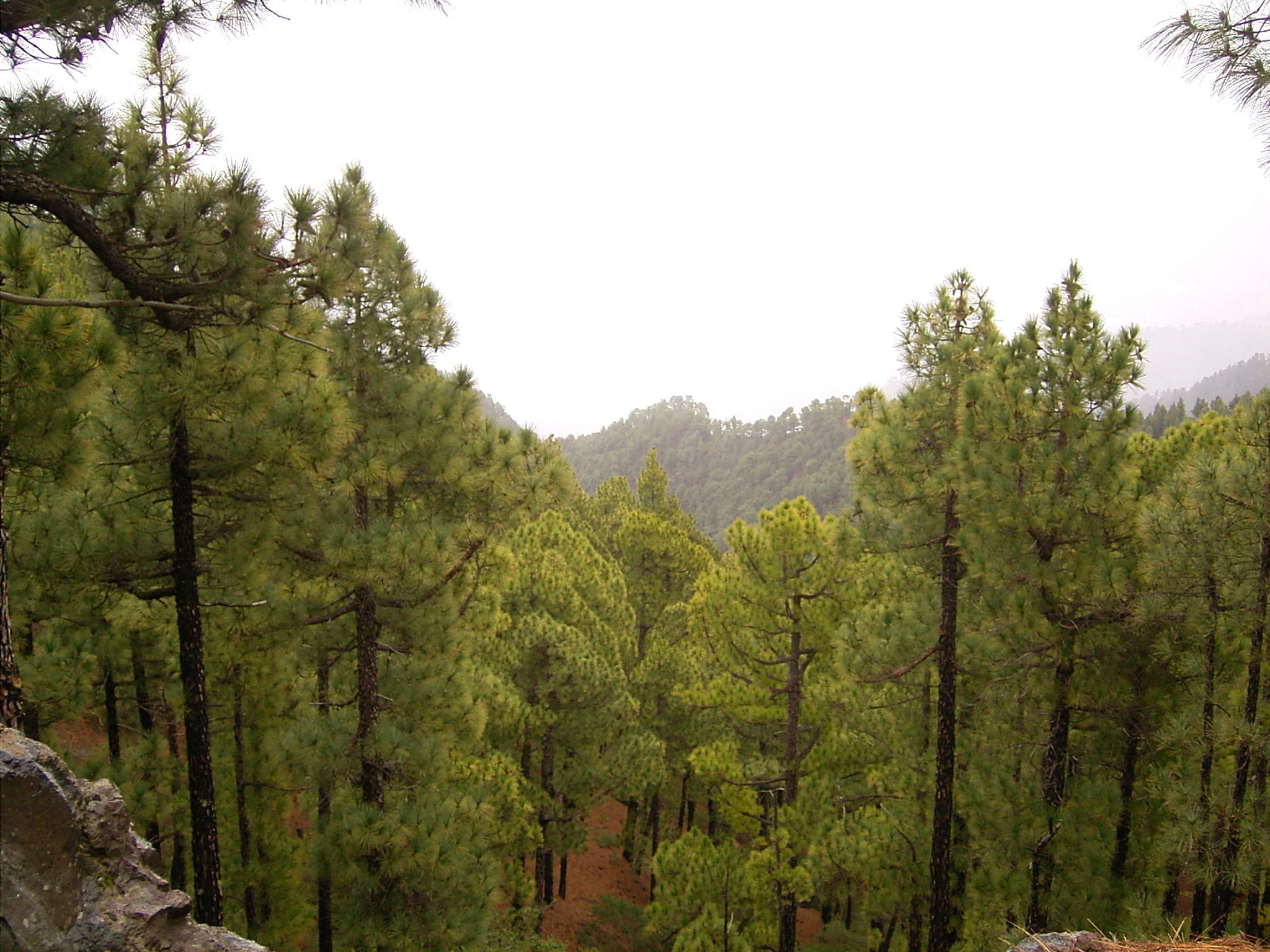 Pinus canariensis growing in Barlovento, La Palma, Canary Islands